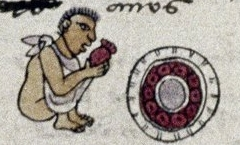 Codex Mendoza f. 58r detail: six-year-old eats an Opuntia fruit left lying at the marketplace